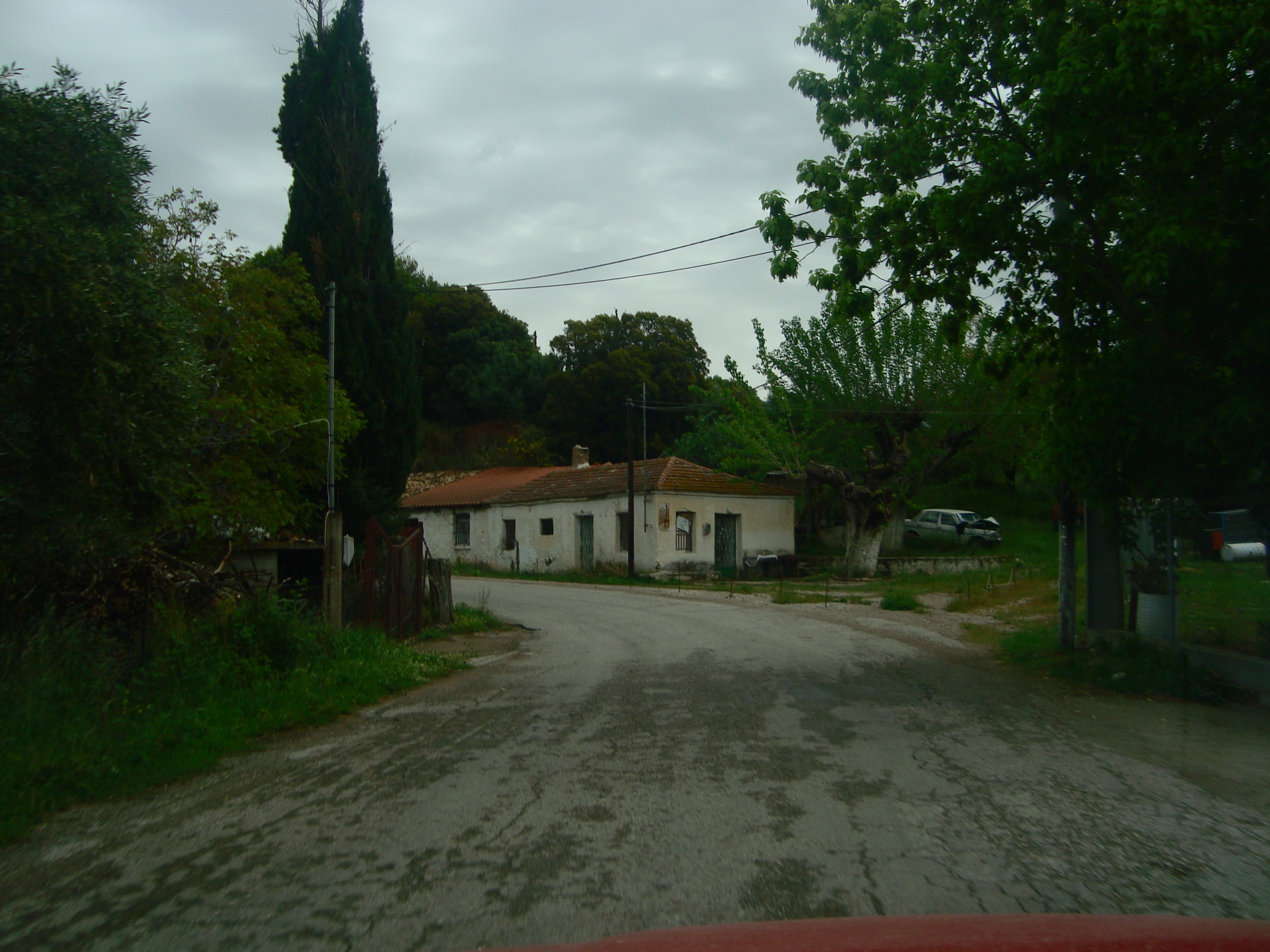 Old cafe Ladas, old bus station , Village Prevedos in Achaea Greece